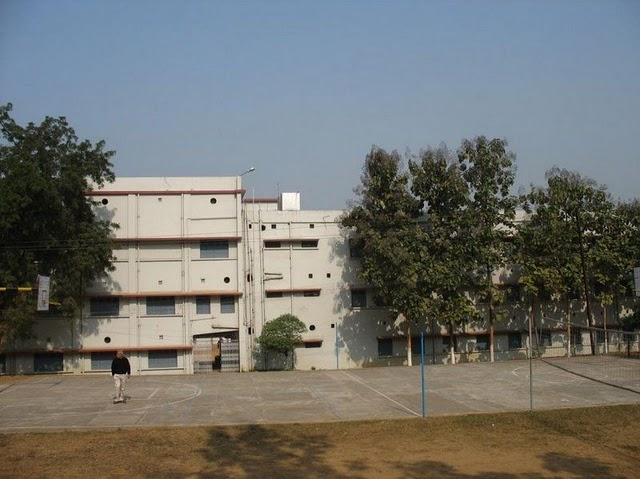 Desouza's English Medium School, Rourkela